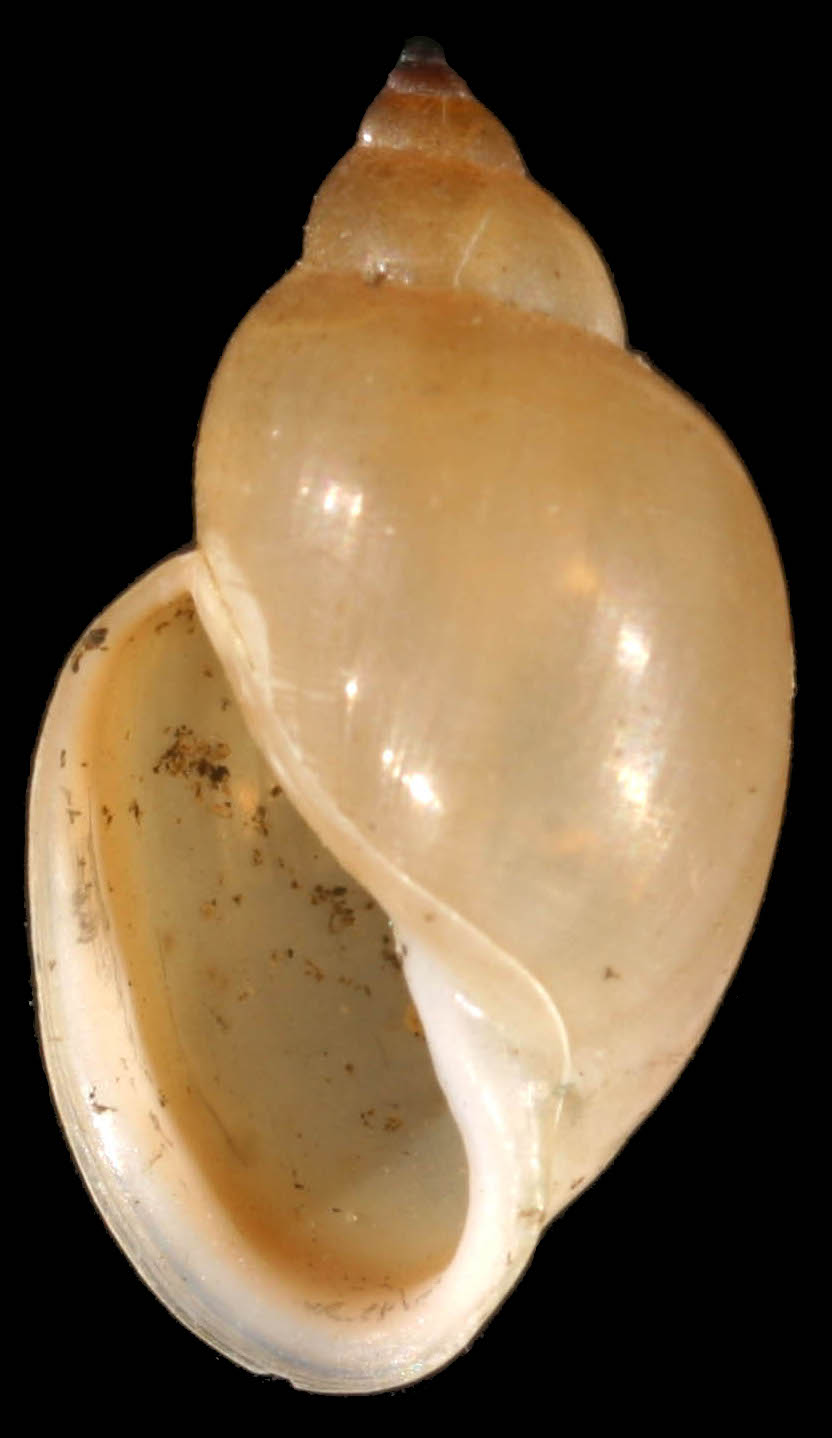 Photo of shell of Physella acuta. Locality: Germany: Elbe near Lauenburg. Date: 1950.